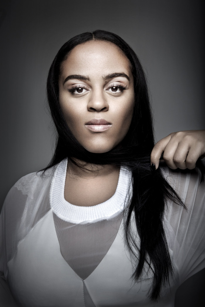 Seinabo Sey